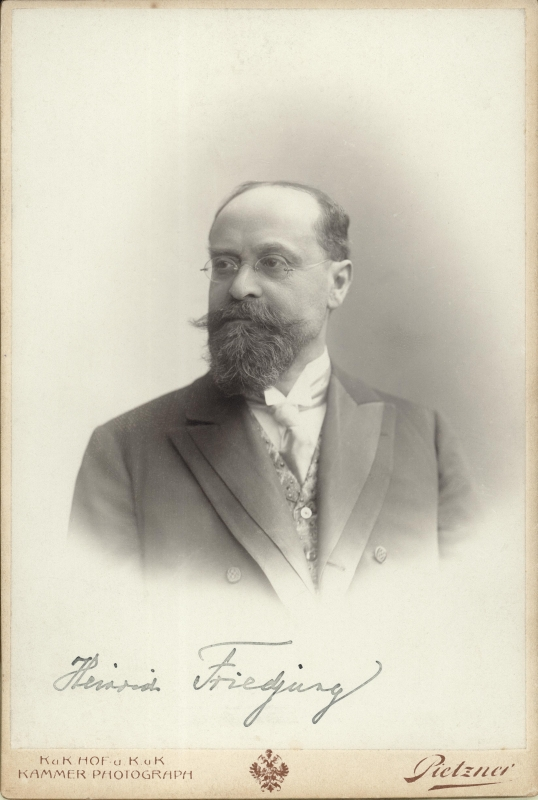 Heinrich Friedjung (1851-1920), Austrian historian and journalist